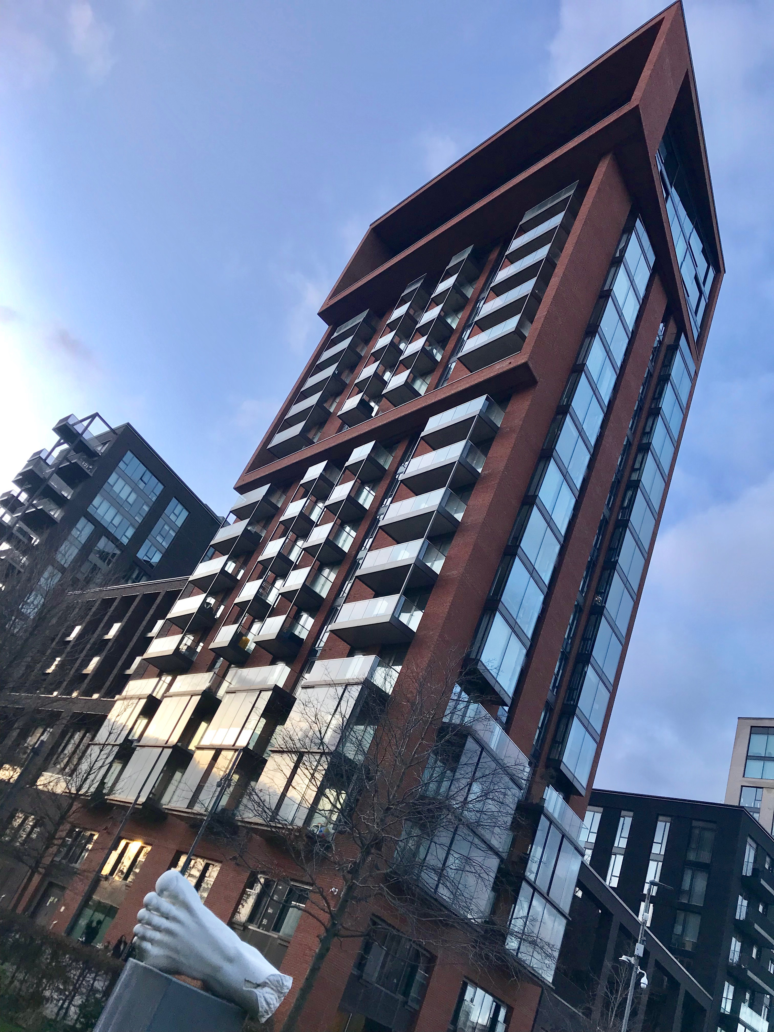 Pointy building in Nine Elms